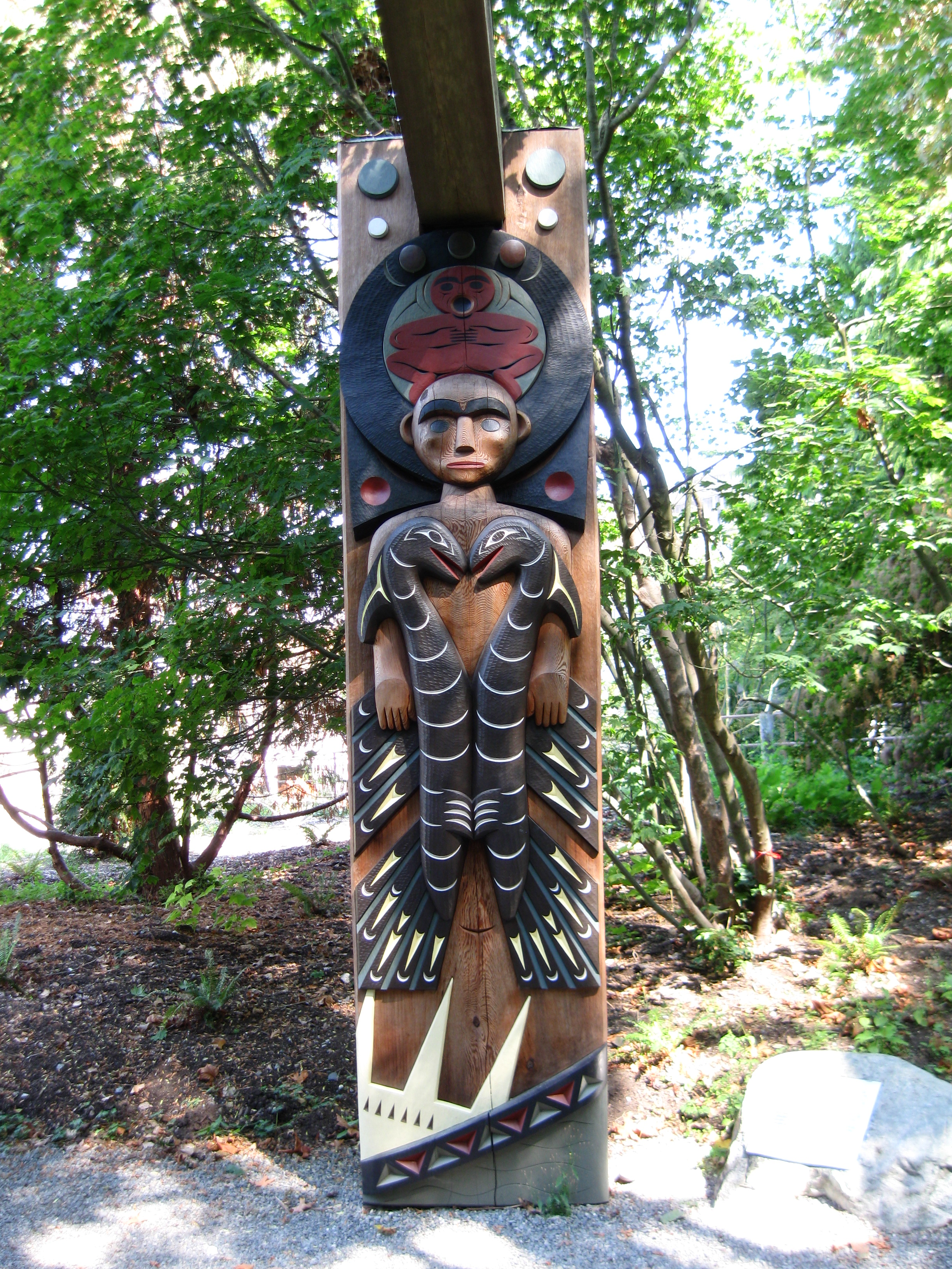 This house post was unveiled on UBC campus in Vancouver, BC, Canada behing the UBC Museum of Anthropology building on March 3, 1997. It was designed by the Musqueam native Indian artist Susan Point.